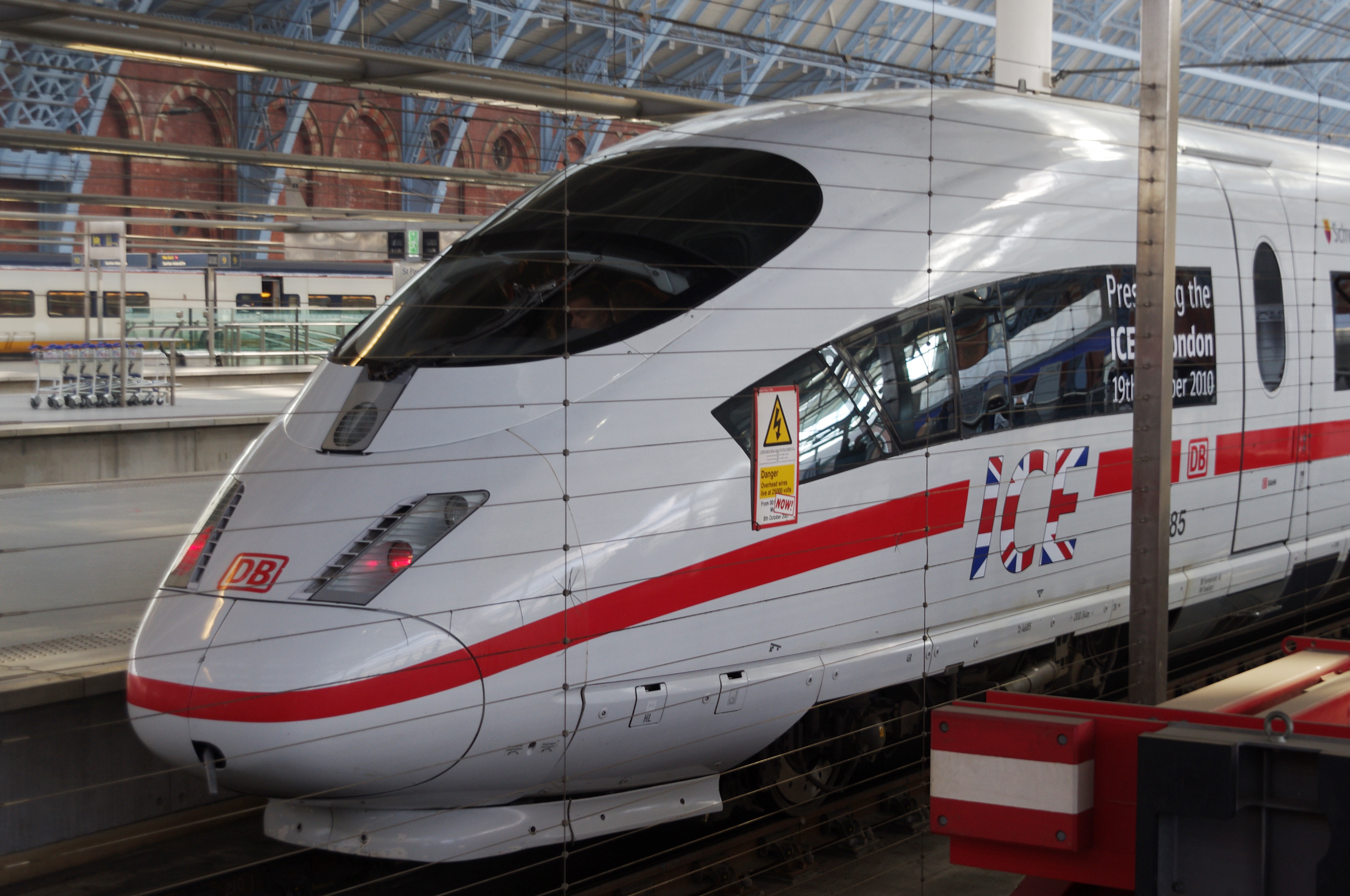 Deutsche Bahn AG Class 406 "ICE 3M" high speed EMU 406-585 "Schwäbisch Hall" stands at London St Pancras. This was the first time such an ICE train had travelled to Britain. DB hope to operate a regular service from London to Germany by 2012.